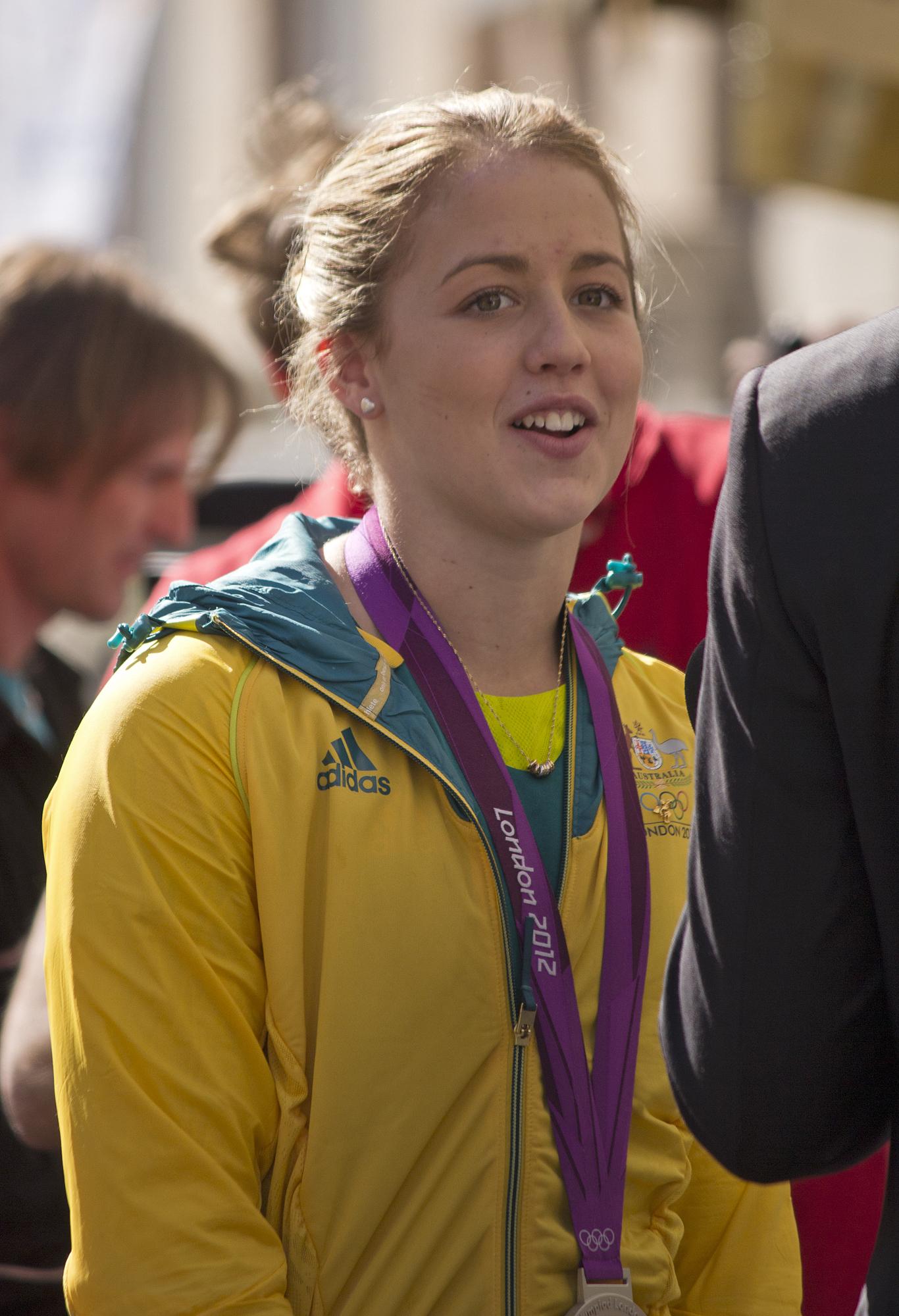 Brittany Broben being interviewed by Fox Sports News reporter Adam Curley at the Welcome Home parade in Sydney.